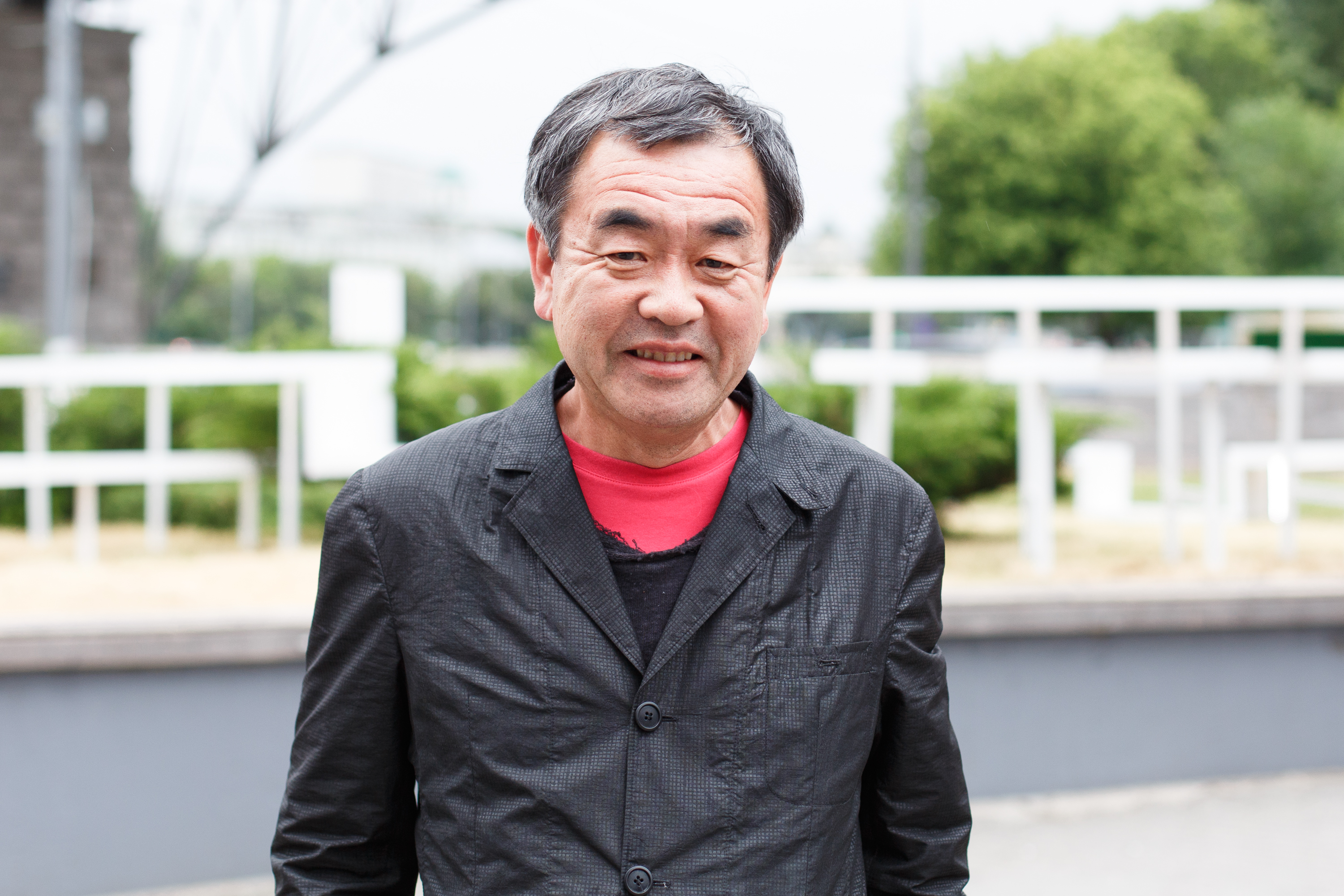 Kengo Kuma at Strelka Institute